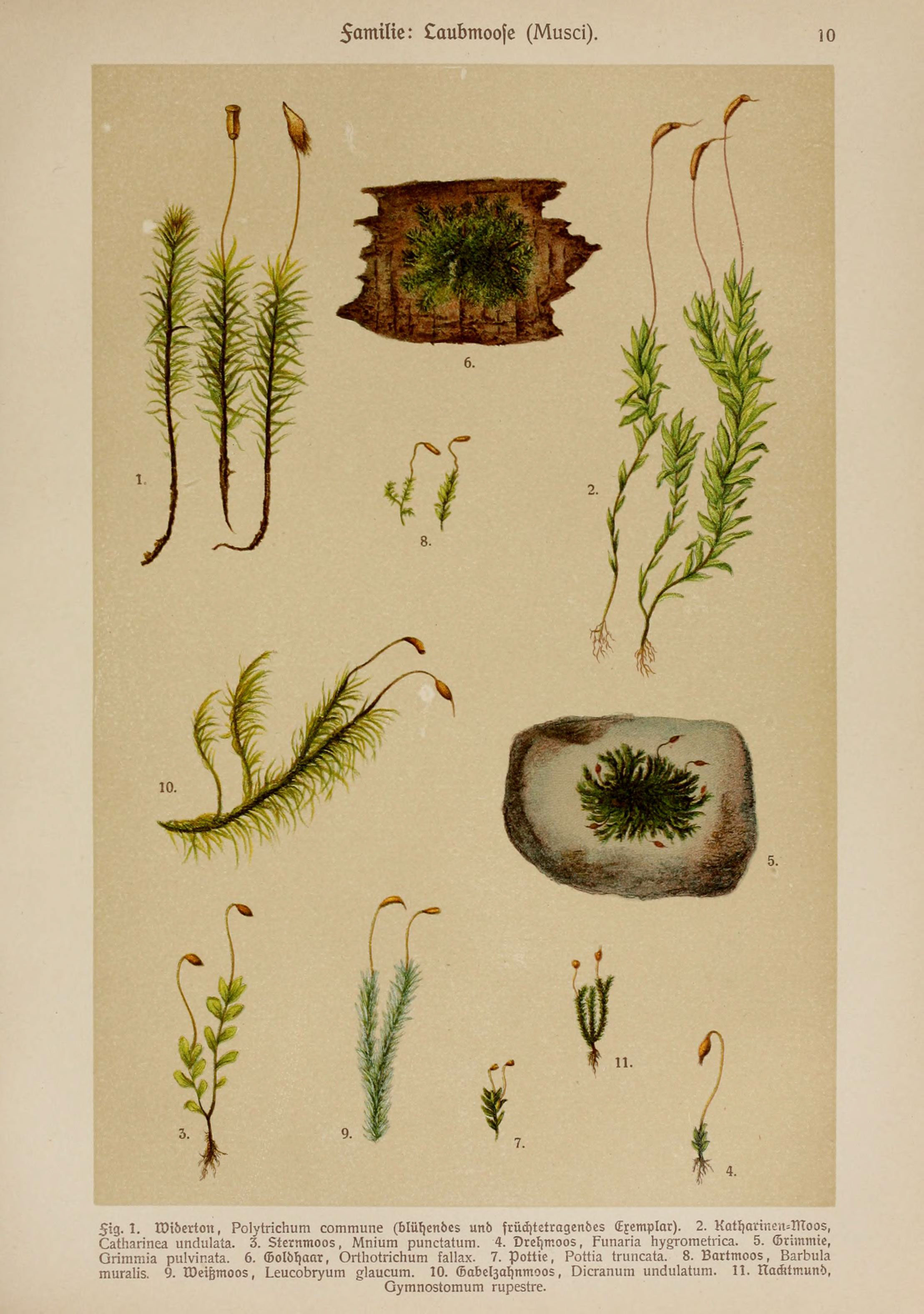 Somilic: Caubmoofe (Musci). 10 5ig. 1. tDtberton, Polytrichum commune (blüf